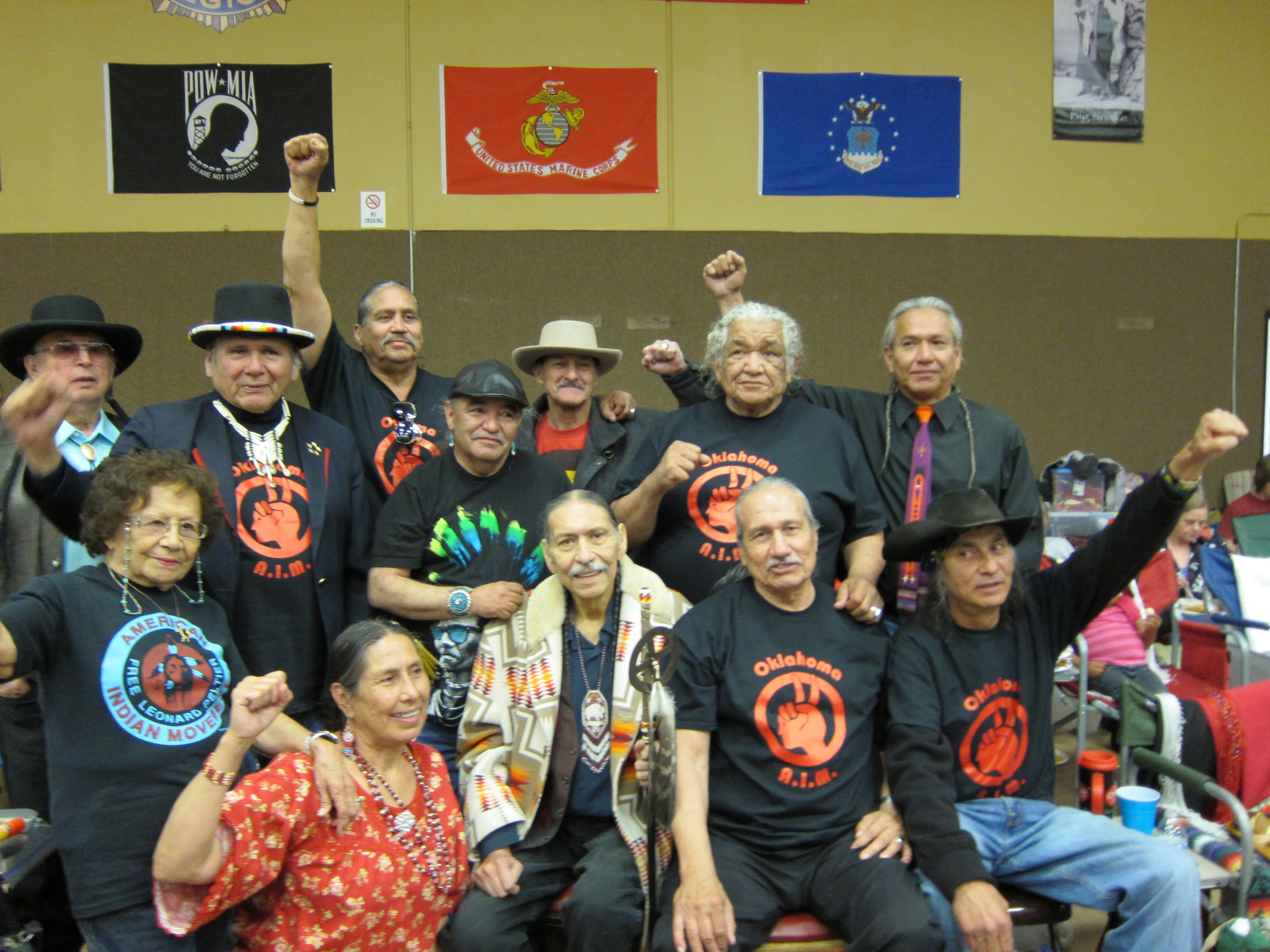 Wounded Knee AIM veterans (see notes for names) Front Row, L-R: ? Casey Camp-Horinek, Carter Camp, Duane Camp, Richard Whitman Back Row, L-R: Don Patterson, Dennis Banks, Craig Camp, Sr., ?, ?, Bear aka Sugar Bear, ?